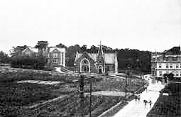 PD photo of Harada-no-mori Campus in 19th century